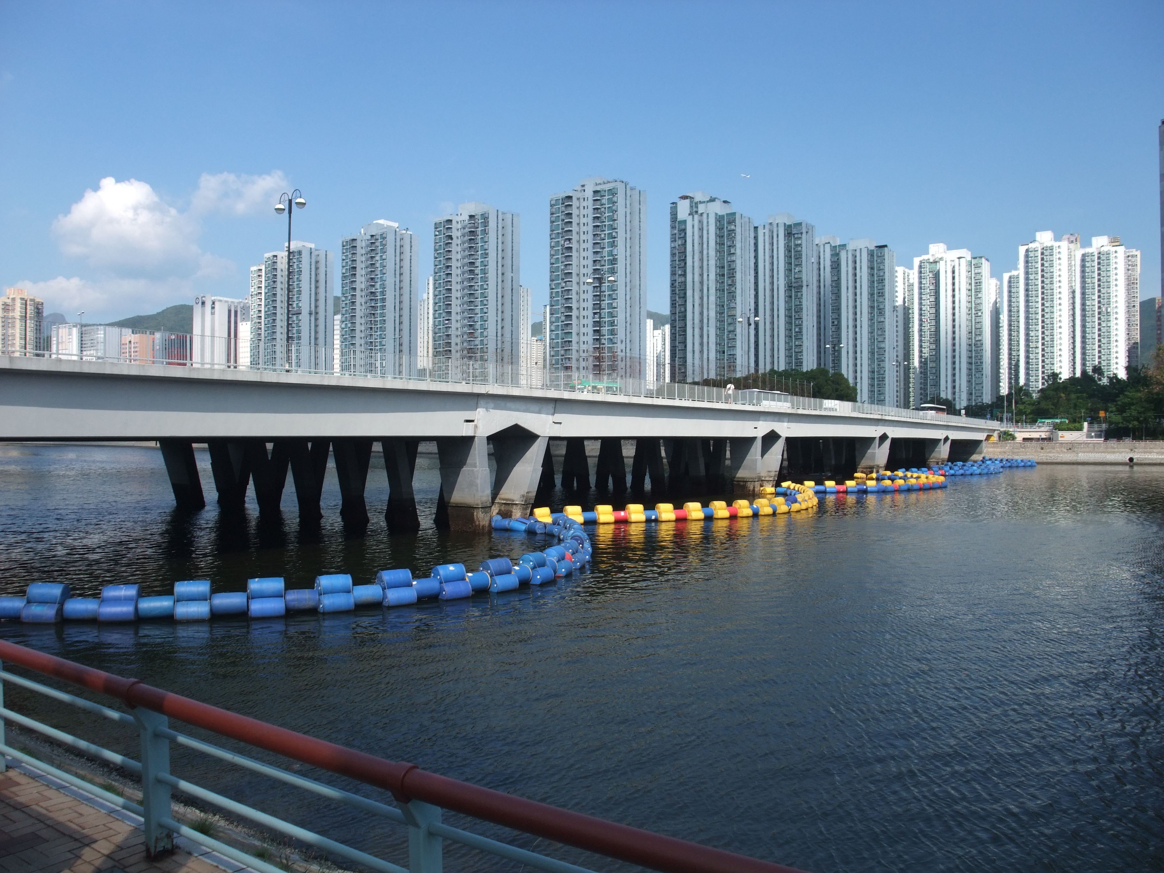 Block of Shing Mun River Channel under Banyan Bridge, 2008 Summer Olympics